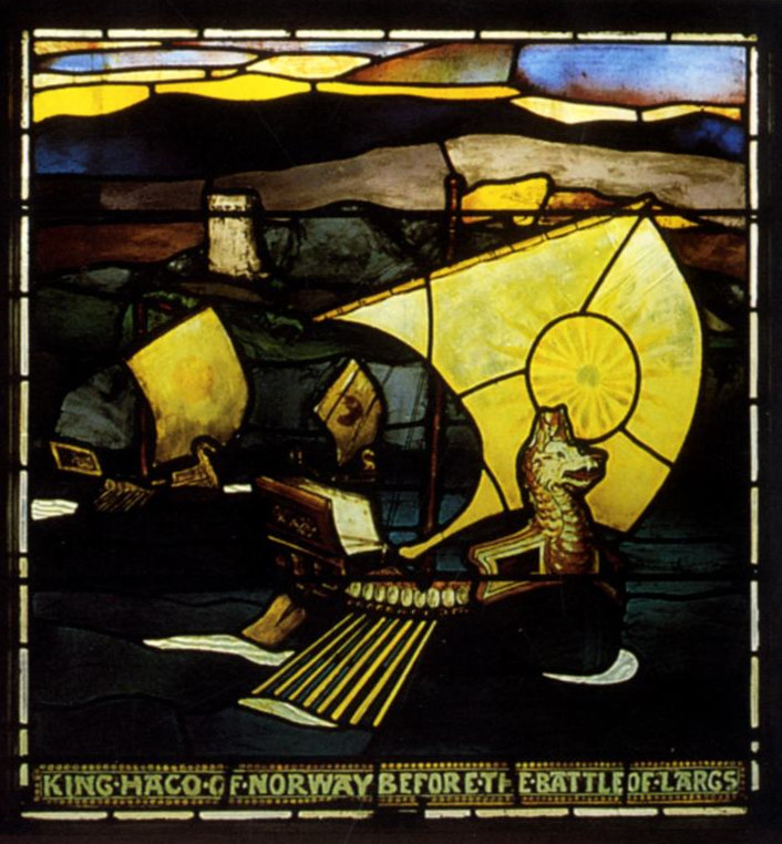 A nineteenth-century stained glass commemoration of the Battle of Largs.